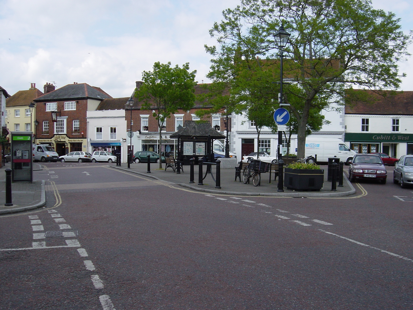 Emsworth, Hampshire. Village centre